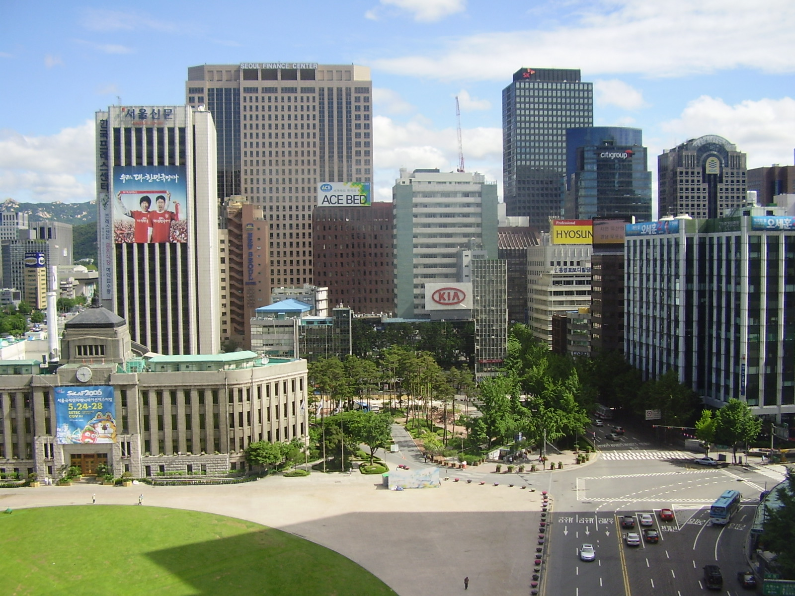 Seoul-South Korea.